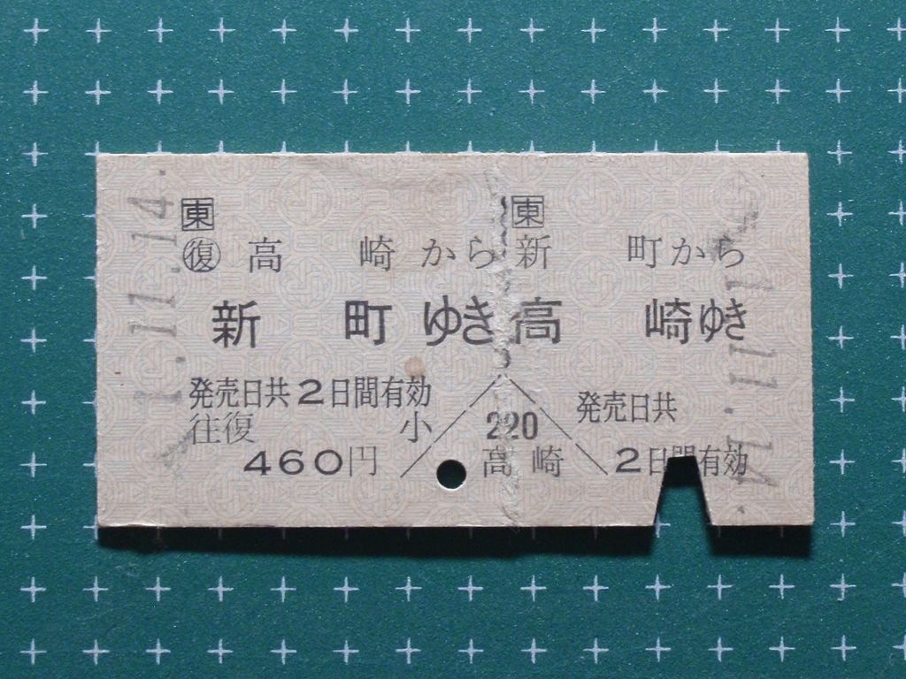 Two way Ticket Shinmachi and Takasaki